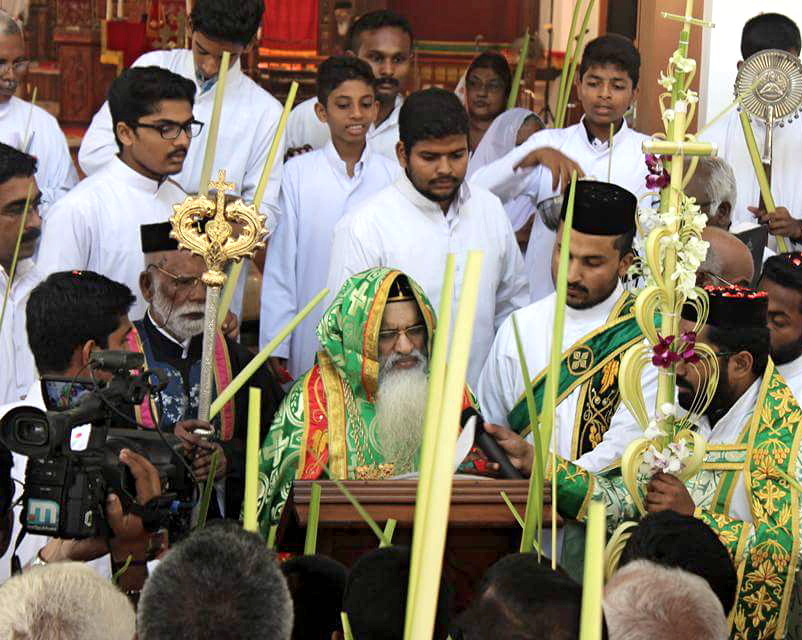 Kuruthola Perunal